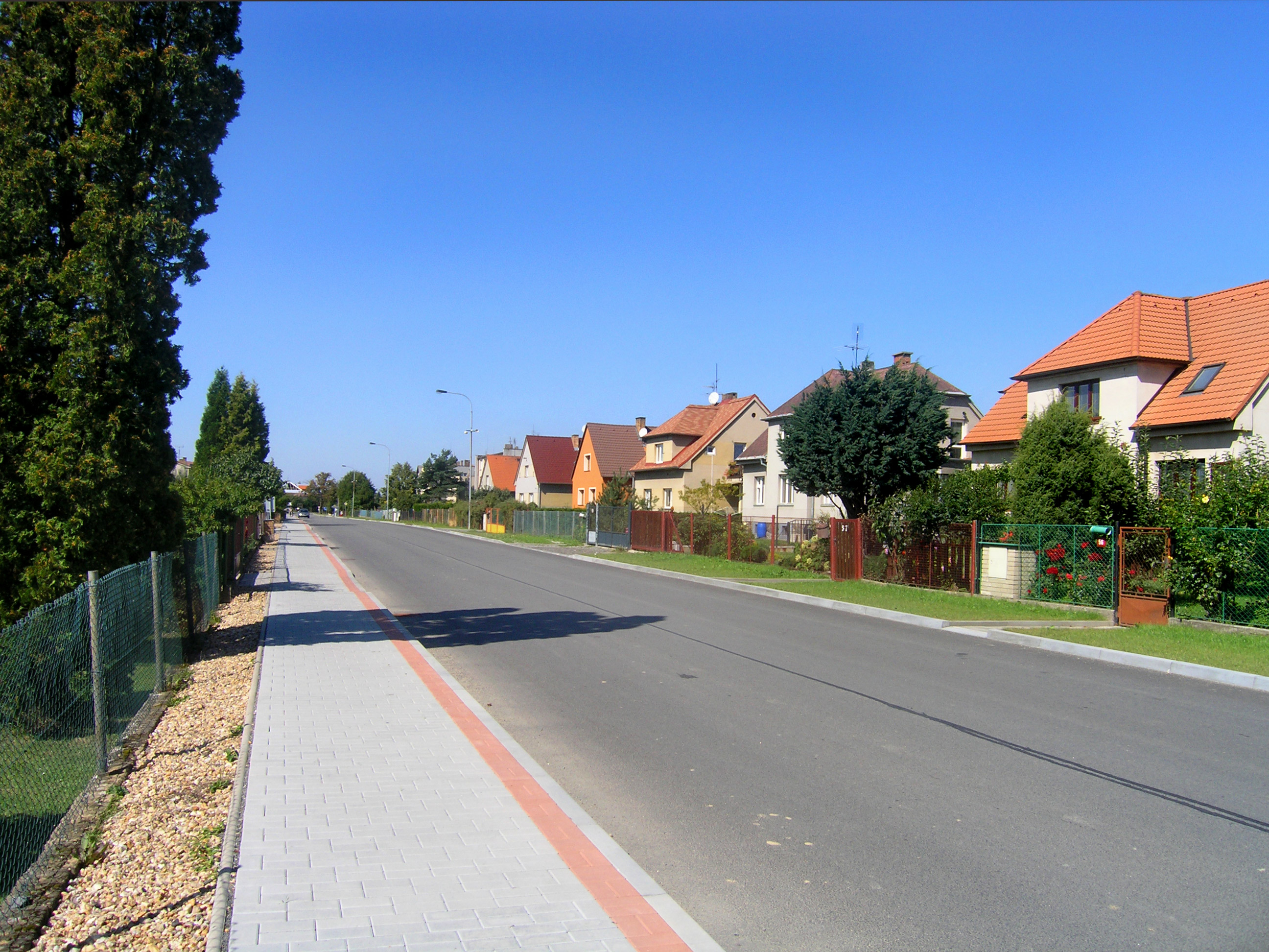 Main street in Slapy village, Czech Republic